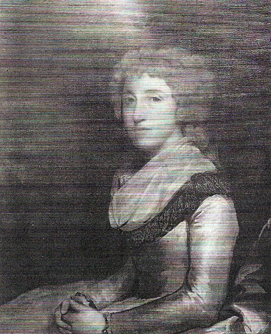 Julia Calcutt circa 1795. Mrs Julia (born Calcutt) Kittson Henry (1756-1835)